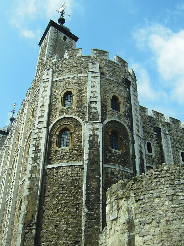 White Tower, Tower of London